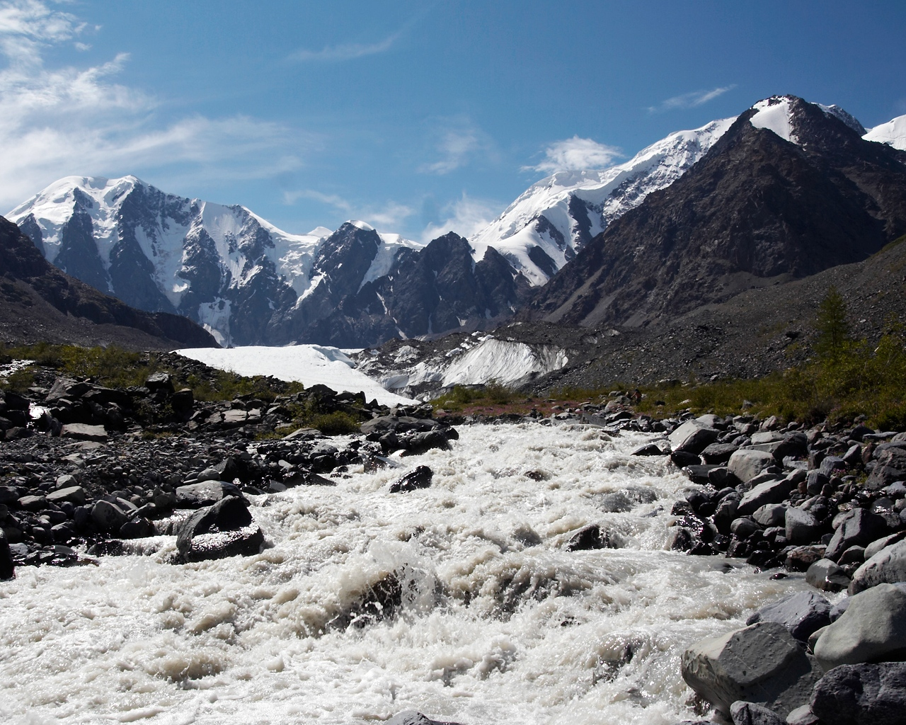 Maashey River